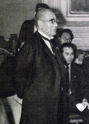 International Law expert Admiral Kichisaburō Nomura (1877–1964) meets the press after having been appointed as Foreign Minister.